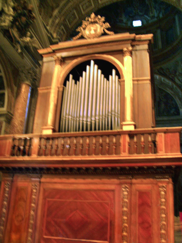 f